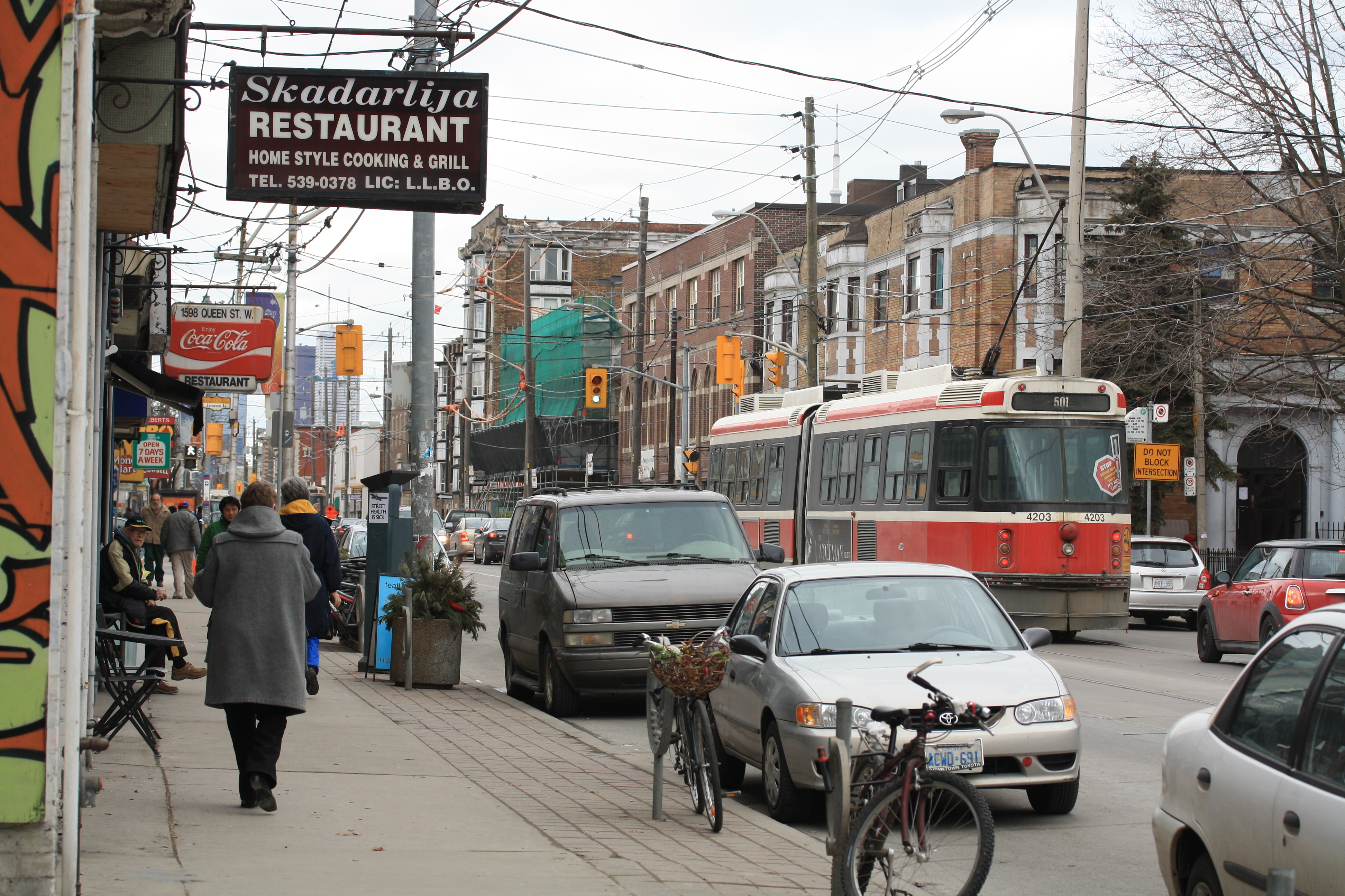 Queen Street West, Toronto, Ontario, Canada.